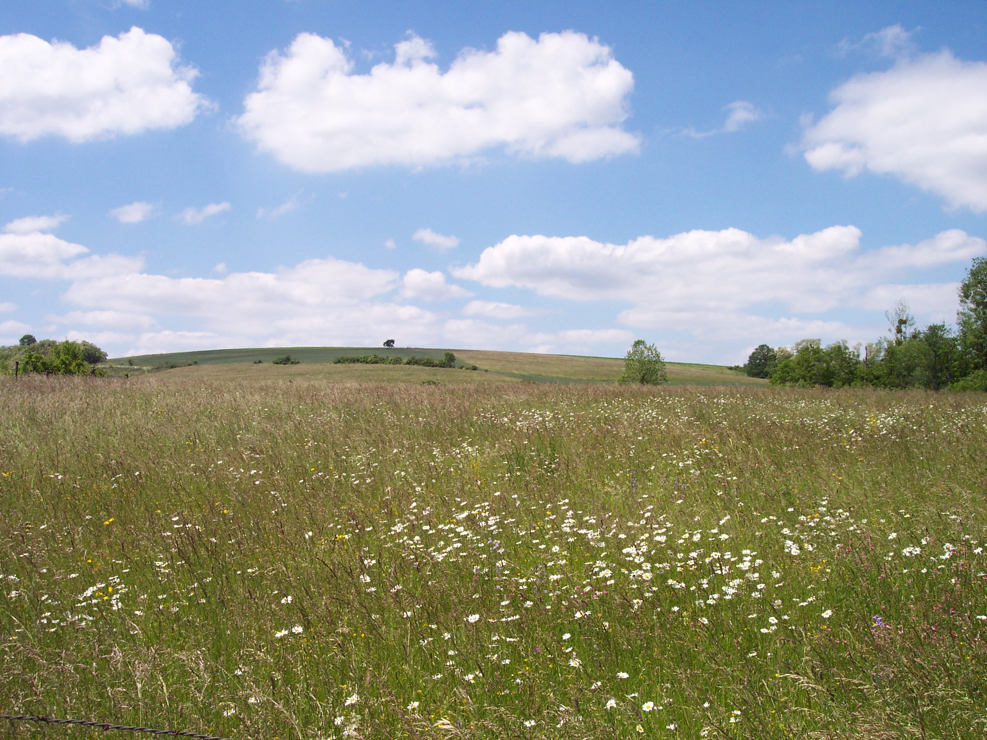 Meadow in Meurthe-et-Moselle, France